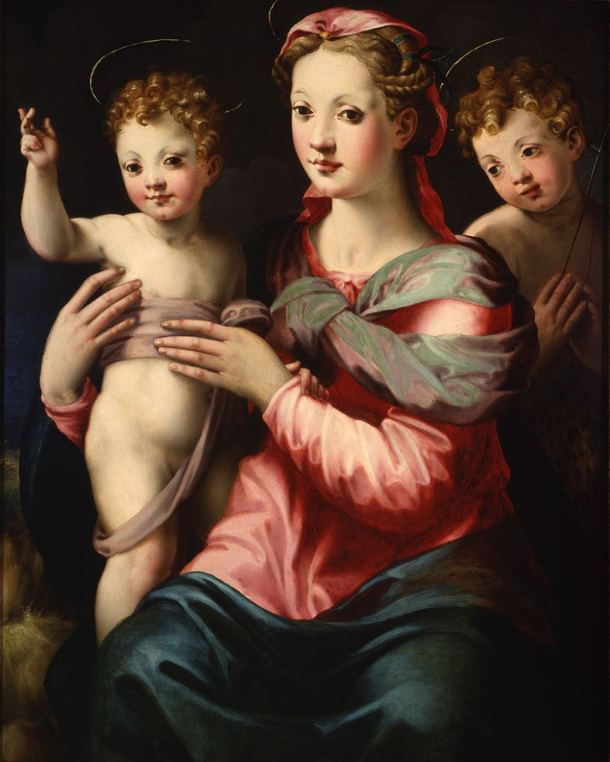 Madonna and Child with St. John the Baptist by Michele Tosini, c. 1545-80, oil on panel, 35.75 x 28.75 in.; 90.8 x 73 cm, Palmer Museum of Art